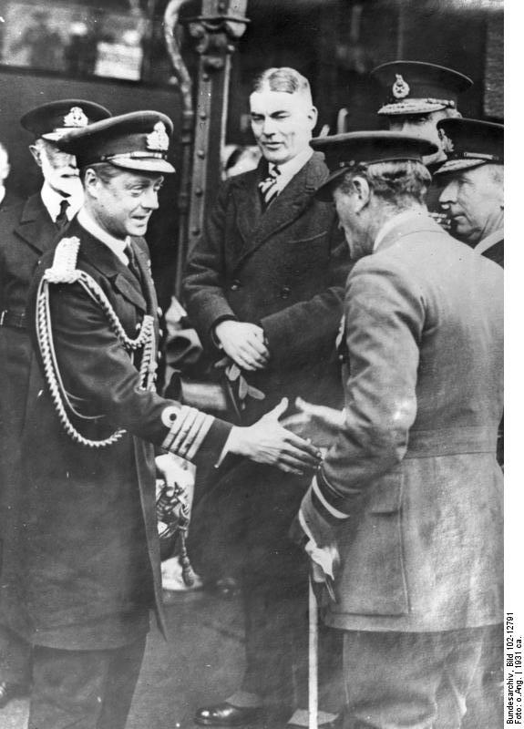 The Prince of Wales inspects the flying station at Dover. The Prince, wearing the uniform of a Royal Navy captain, is shown reaching out his hand to an unidentified RAF air vice-marshal.